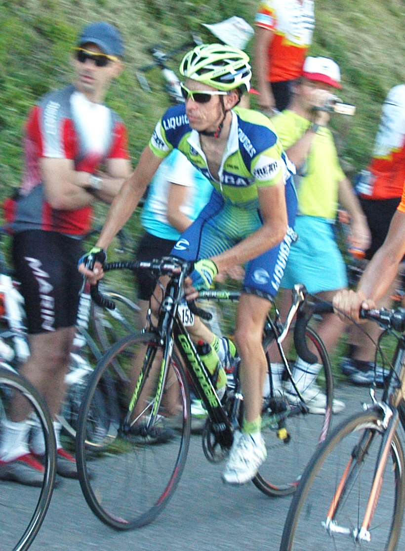 Charles Wegelius at stage 7 of the Tour de France 2007 on the Col de la Colombière.